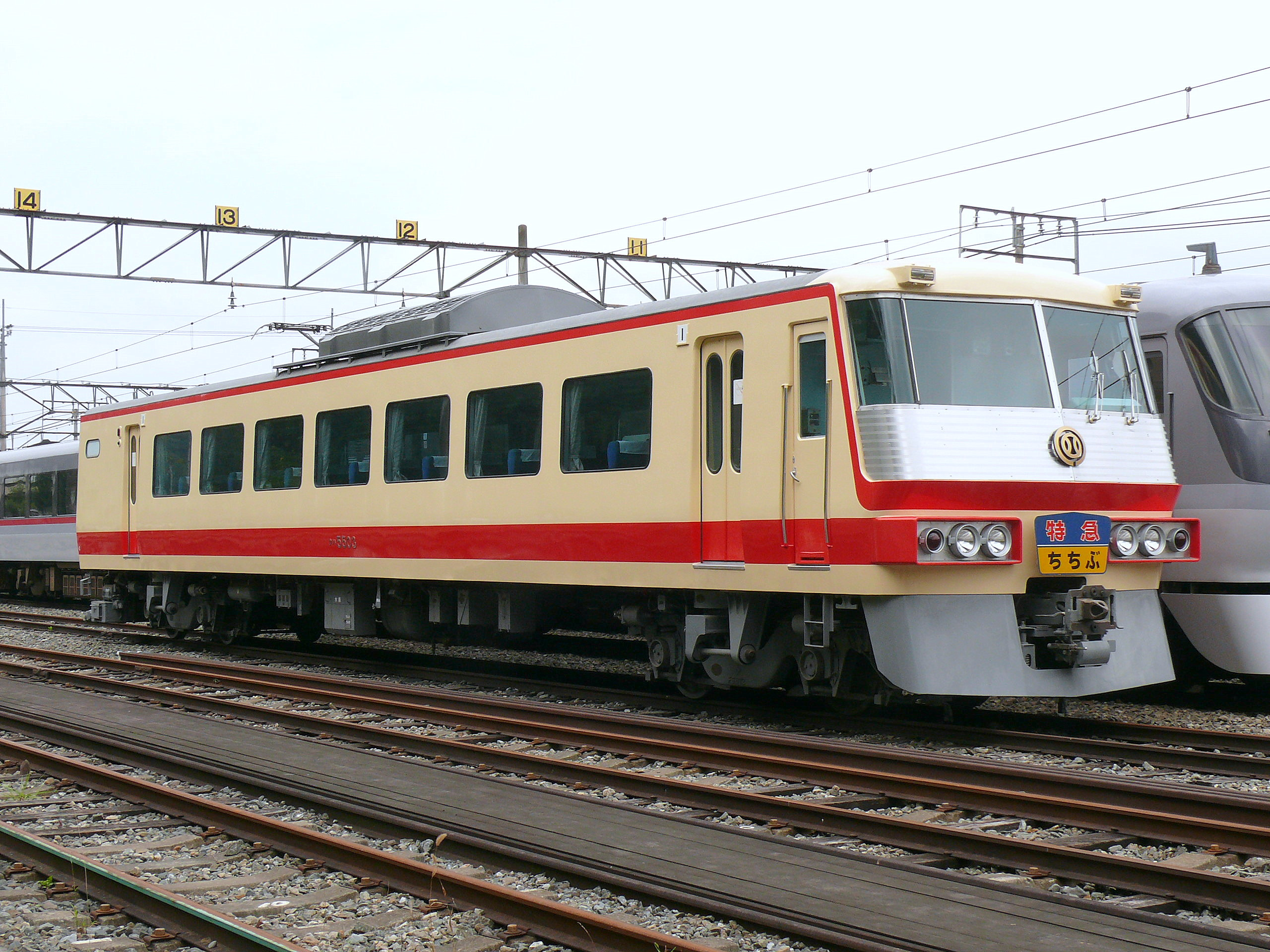 Seibu Railway Type 5000 EMU Kuha5503.